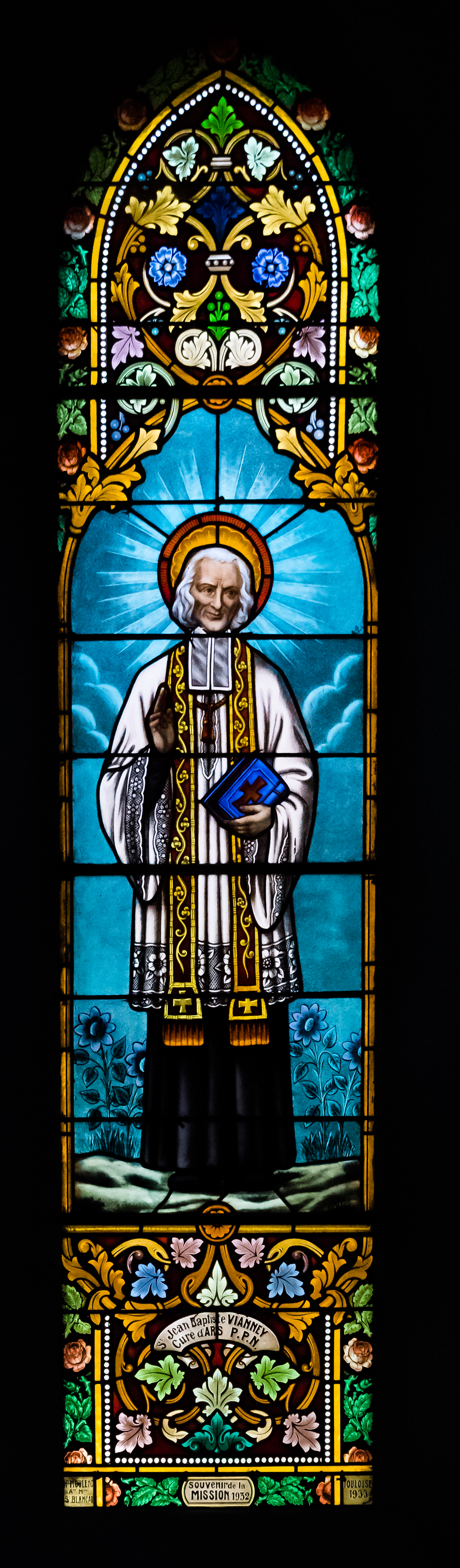 Stained glass window in the Saint Felix Church in Laissac, Aveyron, France